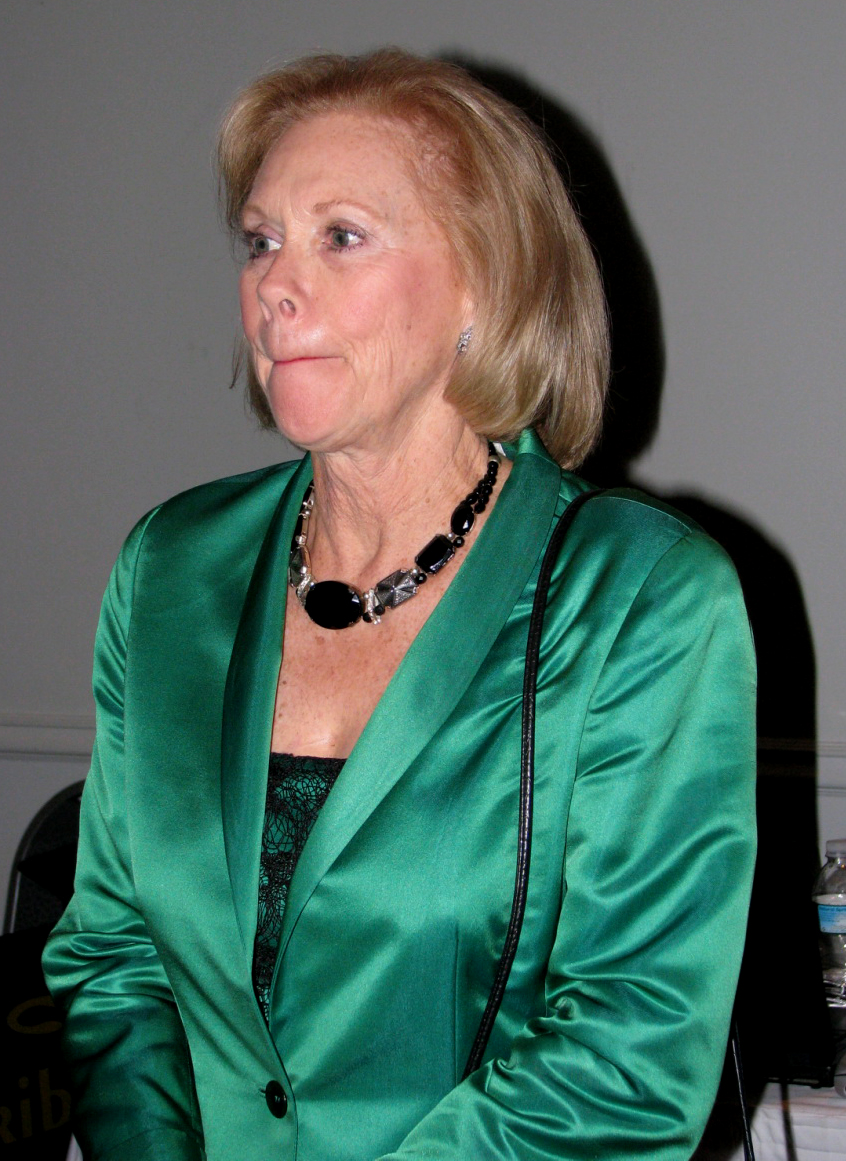 Marjorie Osterlund Rendell, Chair of the United States Judicial Conference Committee on the Administration of the Bankruptcy System and also serves on several Third Circuit committees.